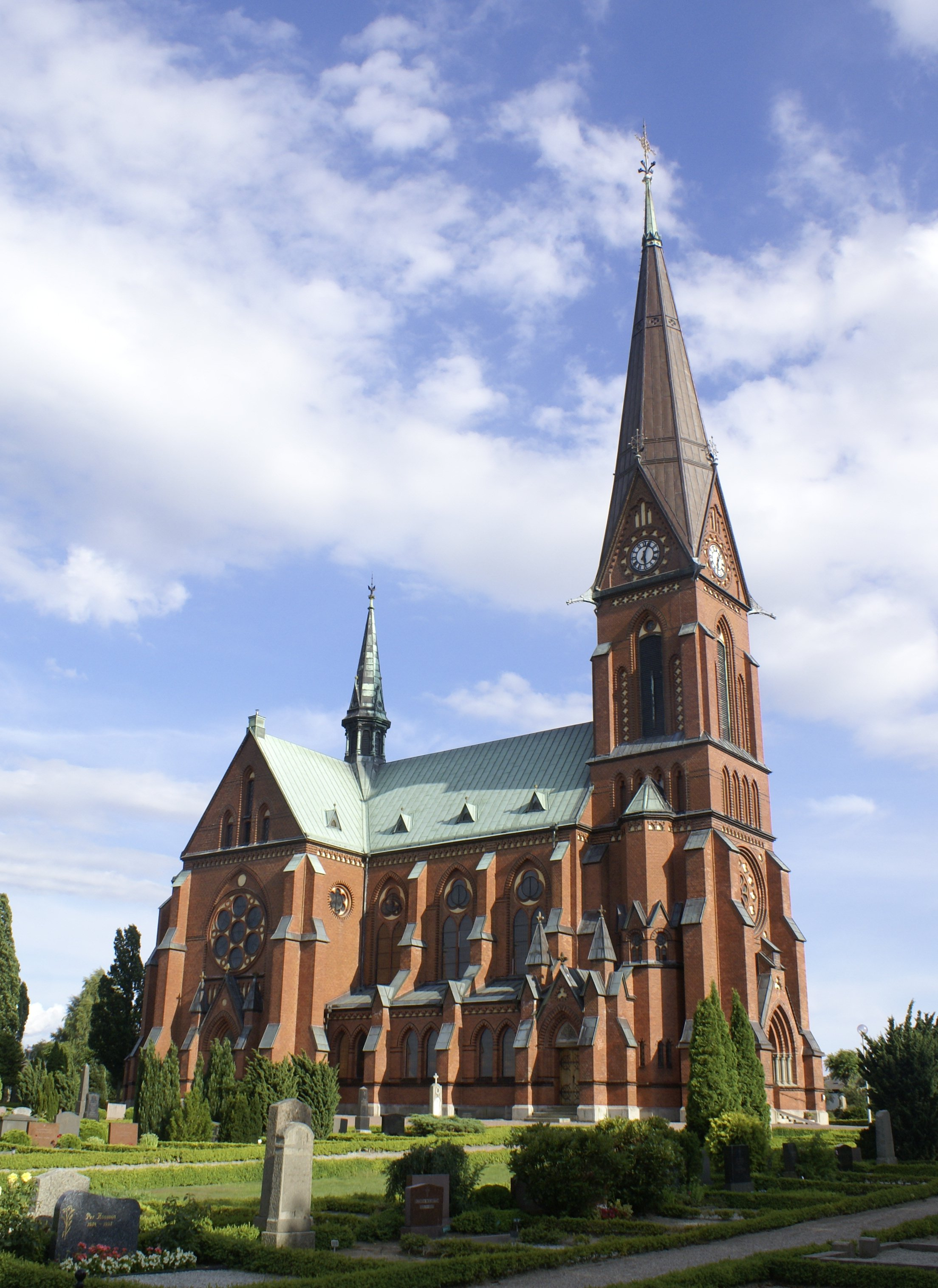 Asmundtorps kyrka